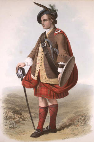 "MacNab". A plate illustrated by R. R. McIan, from James Logan's The Clans of the Scottish Highlands, published in 1845.